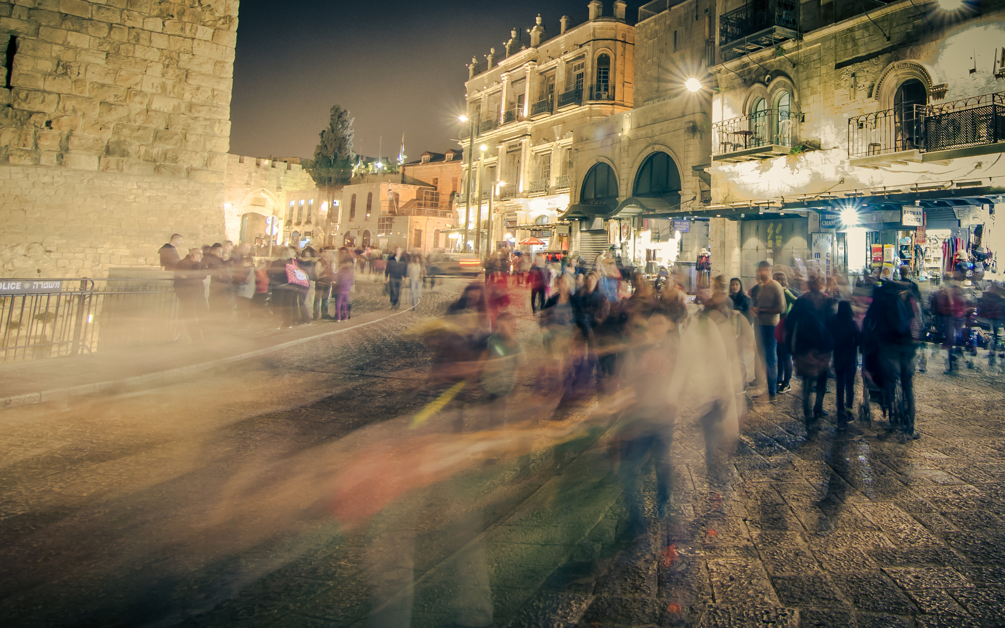 Jaffe gate, Tourism in Israel